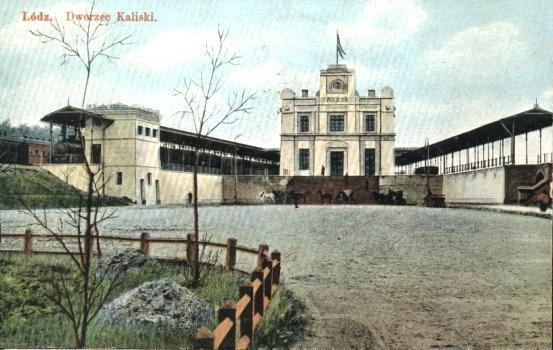 Łódź Kaliska train station